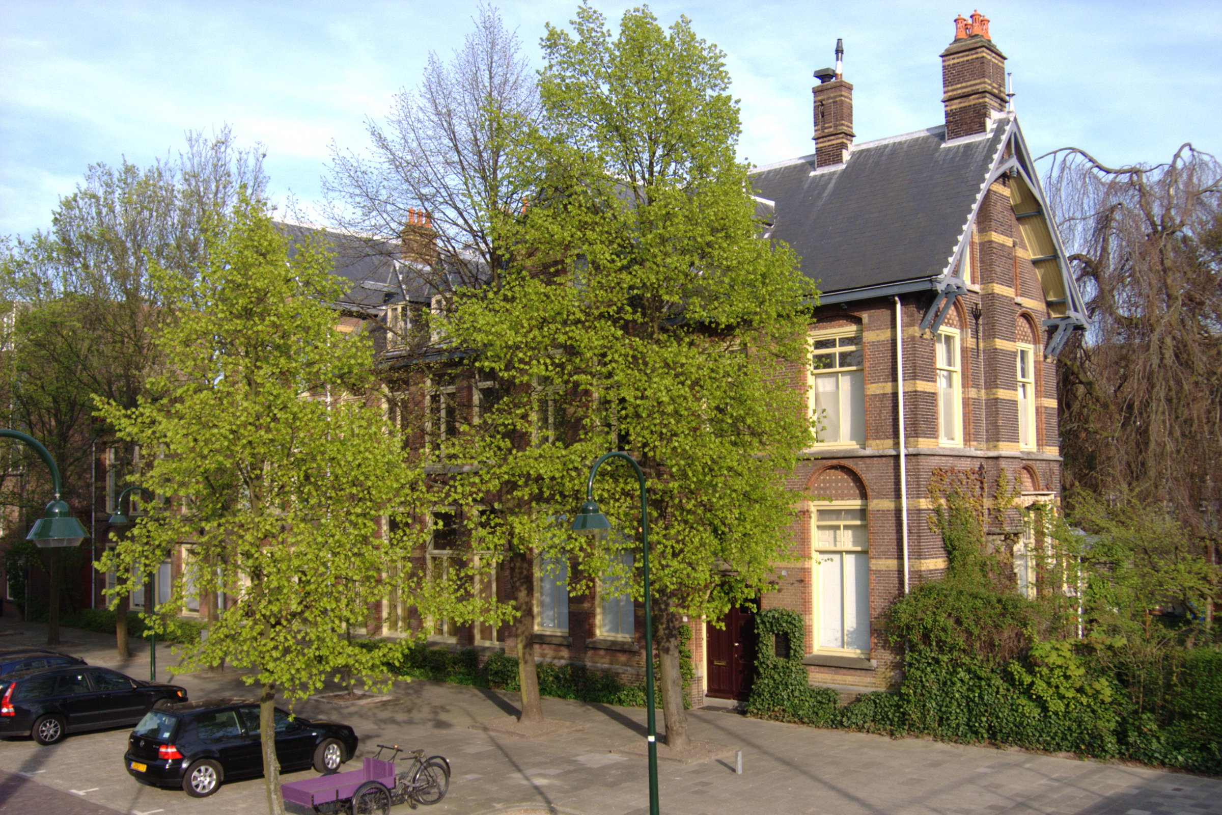 The former Laboratory of Microbiology of the Delft University of Technology at Nieuwelaan 1 in Delft, the Netherlands. Here worked Martinus Beijerinck from 1897 to 1921 and discovered viruses in 1898. Other prominent microbiologists who worked here were Albert Kluyver and Cornelis van Niel. The building had its original use from 1897 to 1957 and is now in use as apartment building. This picture was taken in April 2010.